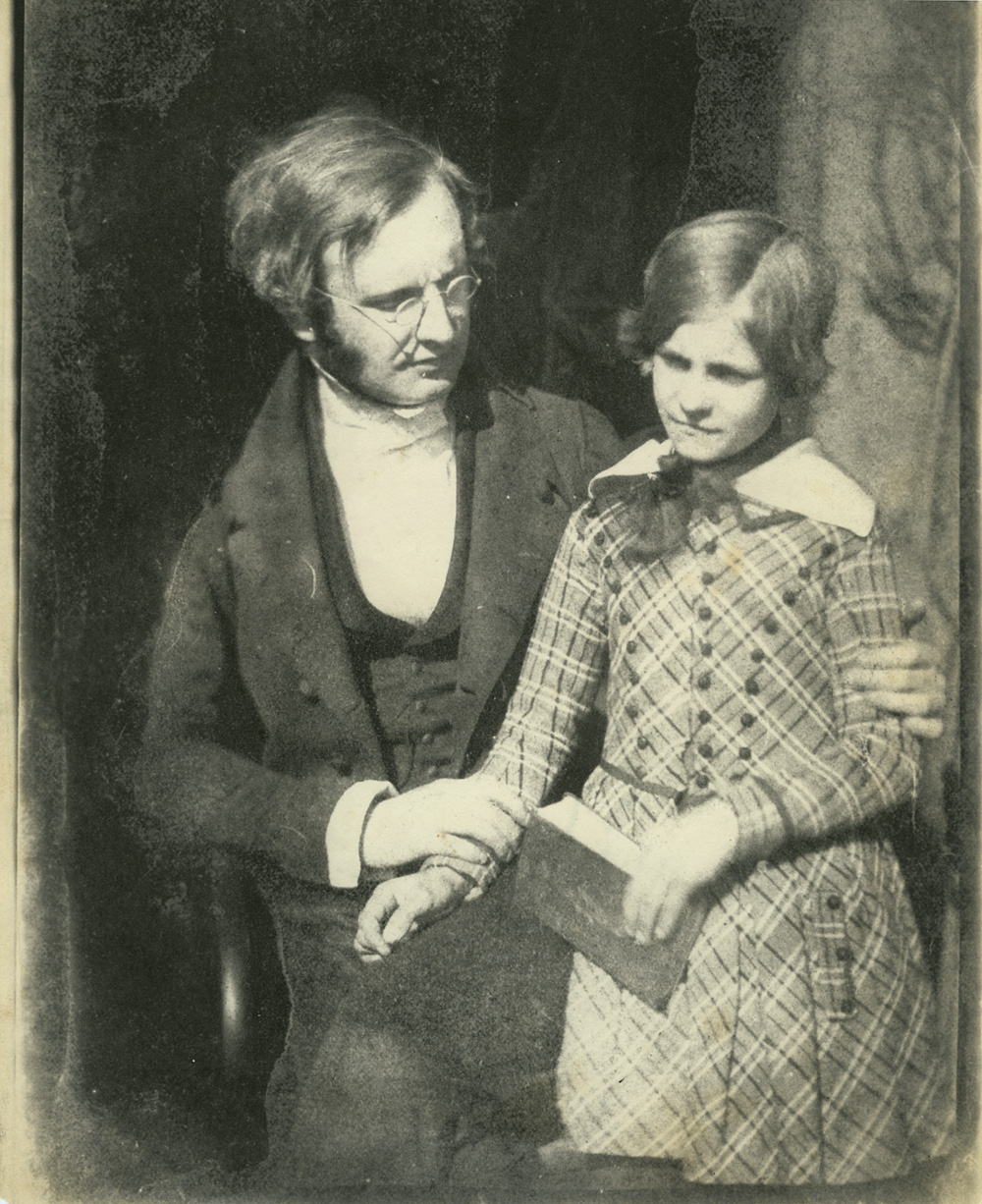 Hill, David Octavius Adamson, Robert Portrett av Adolph Sapir og hans lærer. Adolph Saphir and his teacher. ca. 1843-1847. 21,5x16 cm. NMFF.002237